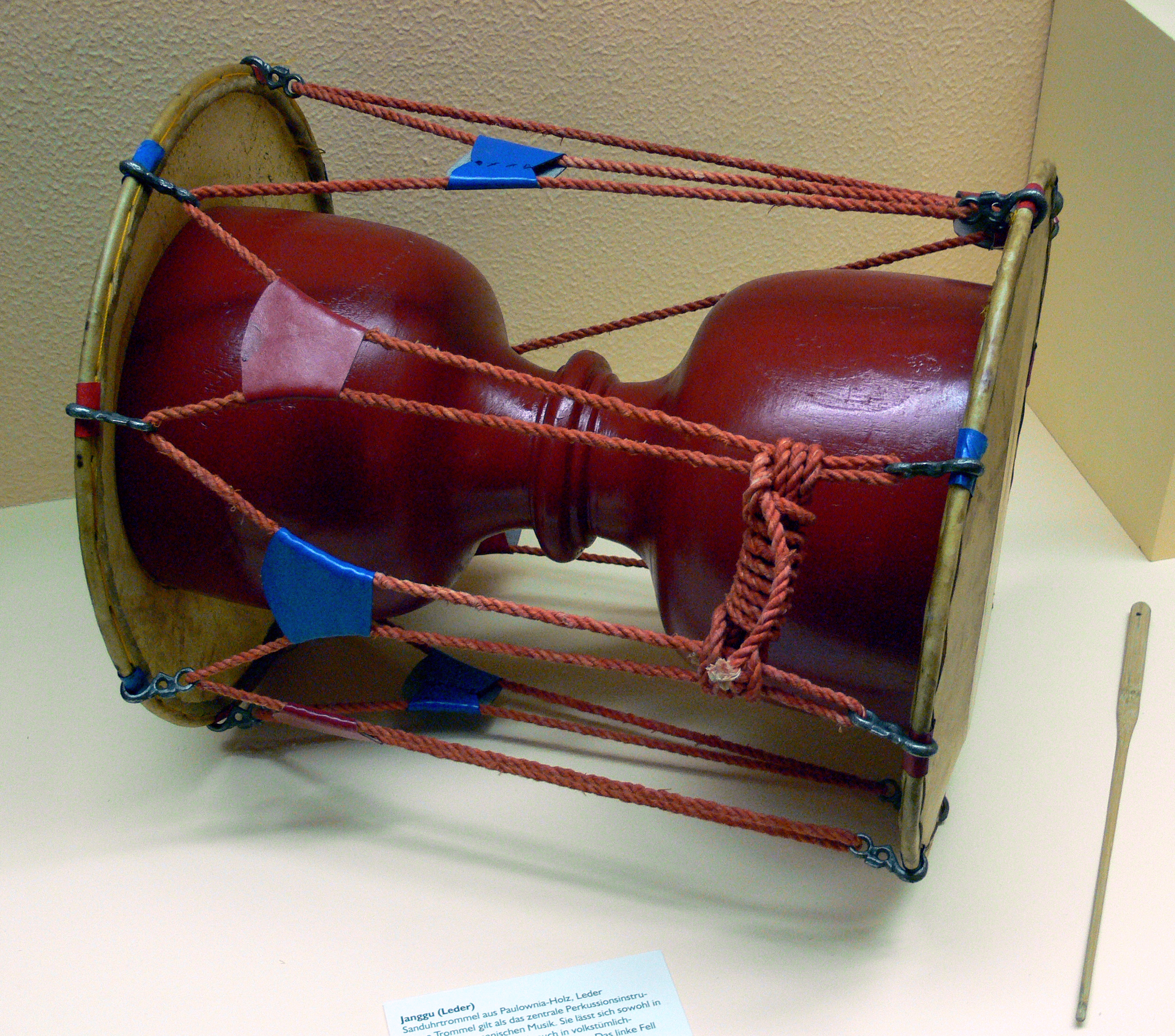 Janggu; Paulownia wood, leather; Korea; Department of Music Ethnology, Ethnological Museum, Berlin, Germany